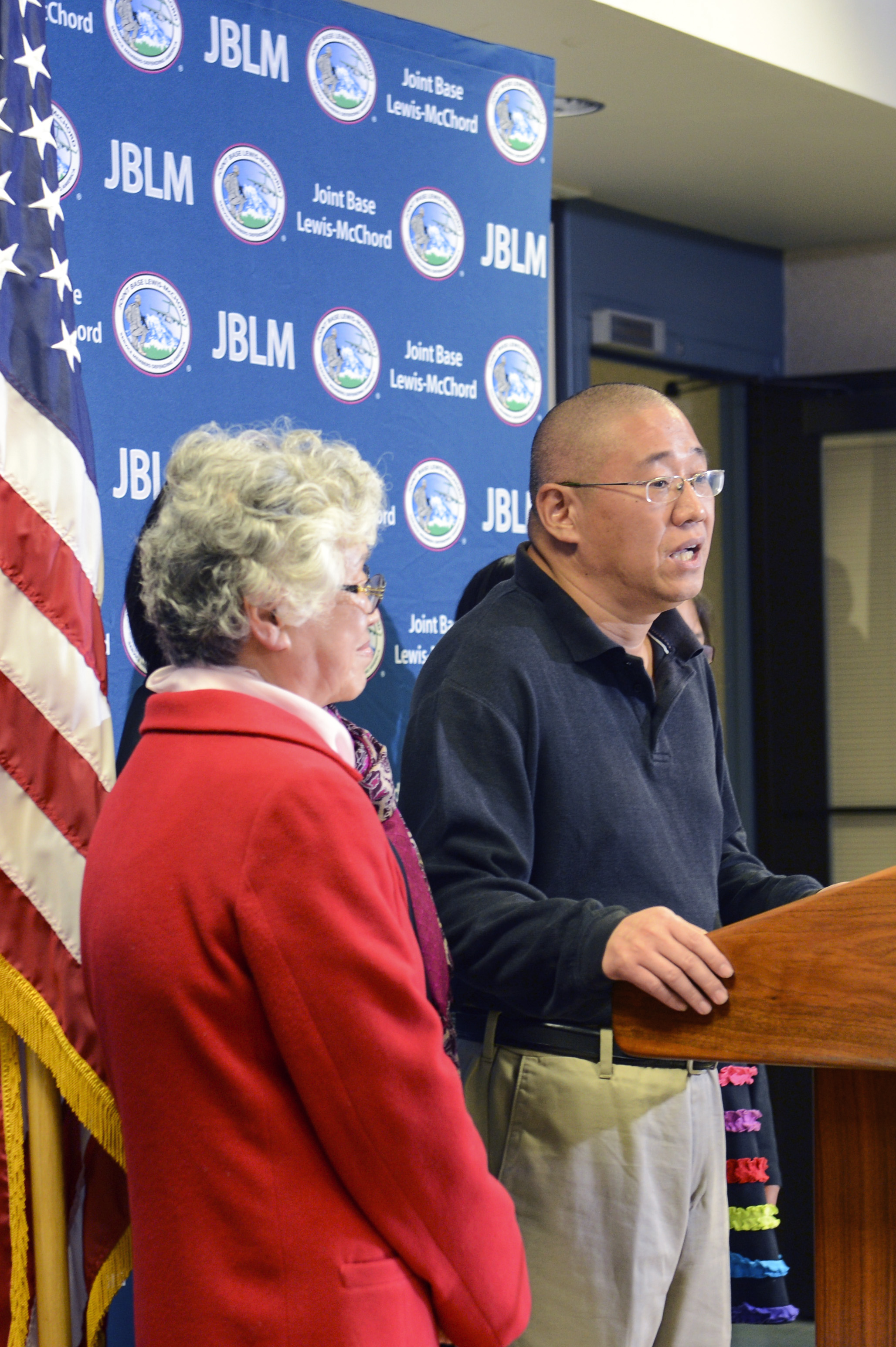 Kenneth Bae, one of the last two American citizens imprisoned in North Korea, addresses the media during a press conference and thanked President Obama, the State Department and the North Korean government for his release Nov. 8th, 2014, at Joint Base Lewis-McChord, Wash. James Clapper, U.S. Director of National Intelligence went to Pyongyang, North Korea and secured the release of the two men after meeting with North Korean officials.